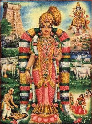 Age old painting of Aandaal